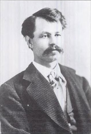 Johnny Behan in 1871. He was a miner, lawman, representative to the Arizona Territorial Legislature, livery stable owner and Superintendent of the Yuma Territorial Prison in the American Old West. He is most well known as the lover of Josephine Sadie Marcus when he was Cochise County Sheriff in Tombstone, Arizona Territory during the events leading up to the Gunfight at the O.K. Corral.